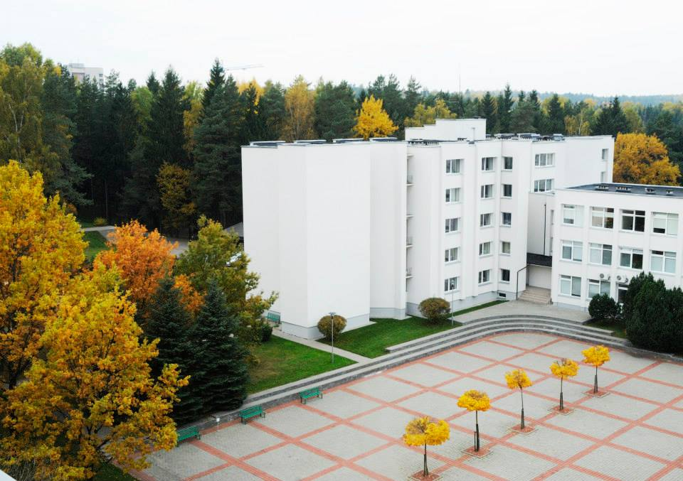 MRU campus in autumn